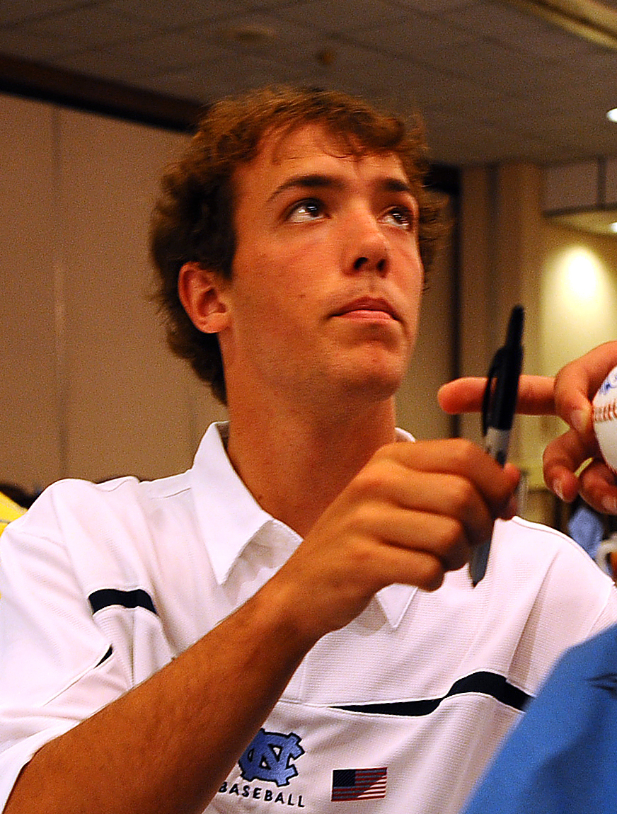 OFFUTT AIR FORCE BASE Neb.,-- Catcher Jacob Stallings, with the University of North Carolina Baseball Team, signs autographs during a luncheon at the Patriot Club as part of a base tour where members of the Tar heels got an inside look at the mission of the 55th Wing, 15 June. The Tar Heels baseball team is competing in the NCAA College World Series hosted at Omaha's Rosenblatt Stadium June 13-23/24. U.S. Air Force Photo by Josh Plueger